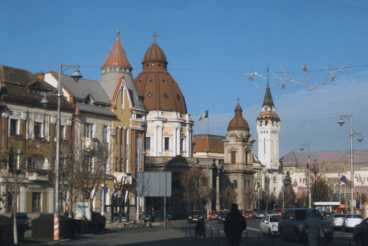 Midtown of Târgu-Mures (Marosvasarhely), Romania, Transylvania